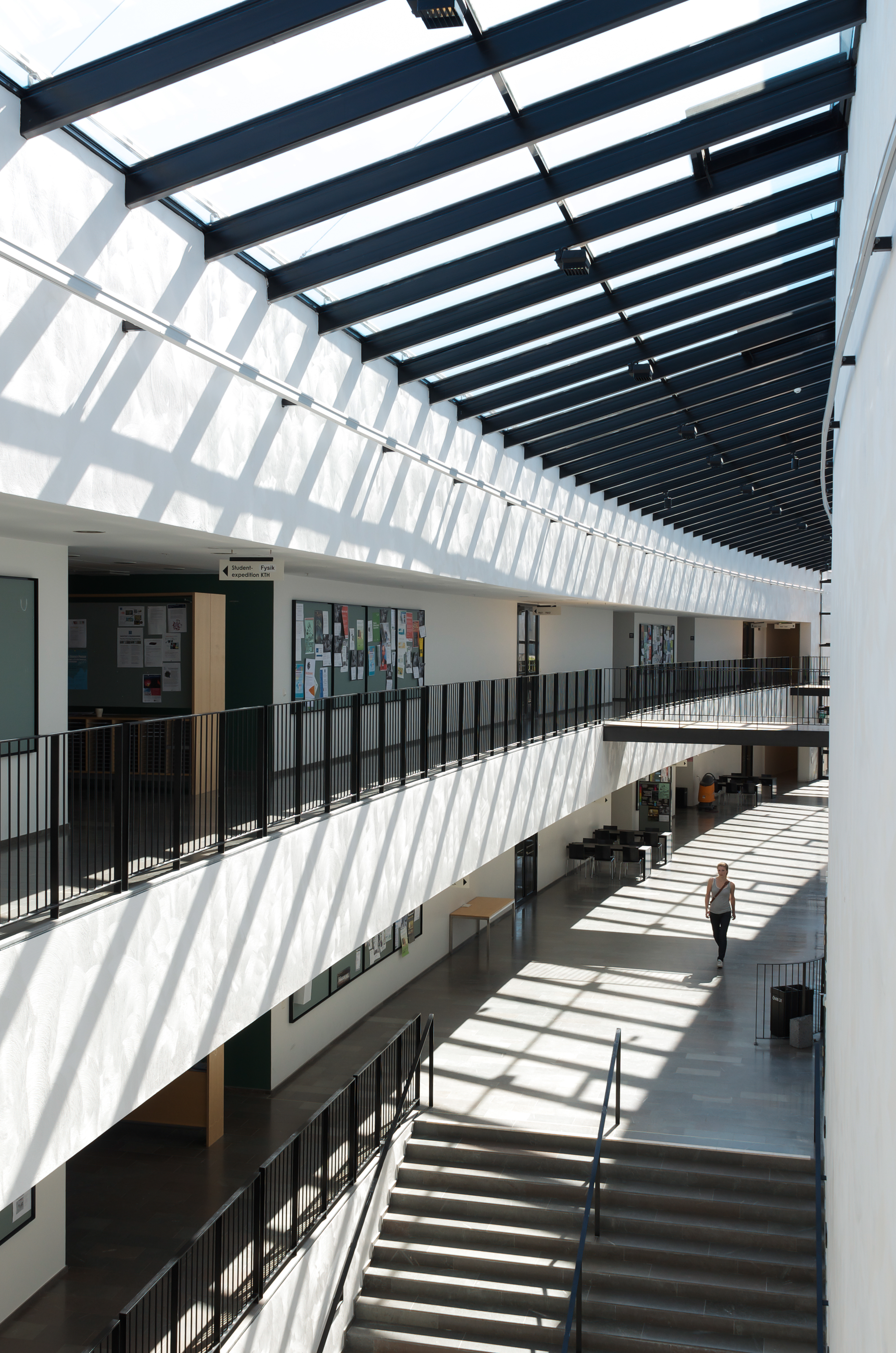 Interior (east side) of AlbaNova University Center - The Stockholm Center for Physics, Astronomy and Biotechnology, Stockholm. Architect Henning Larsen.